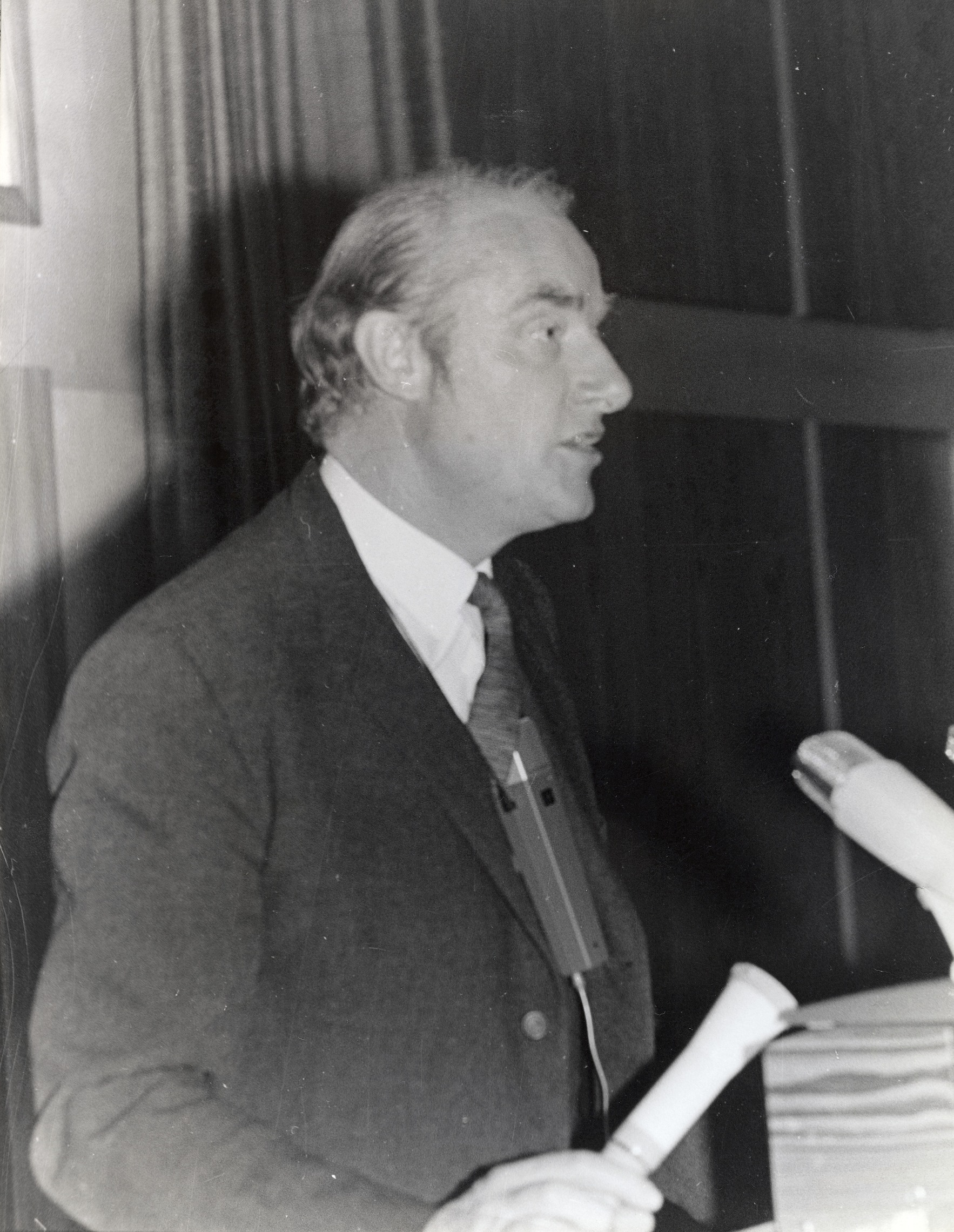 Francis Crick lecturing in Mainz, Germany.